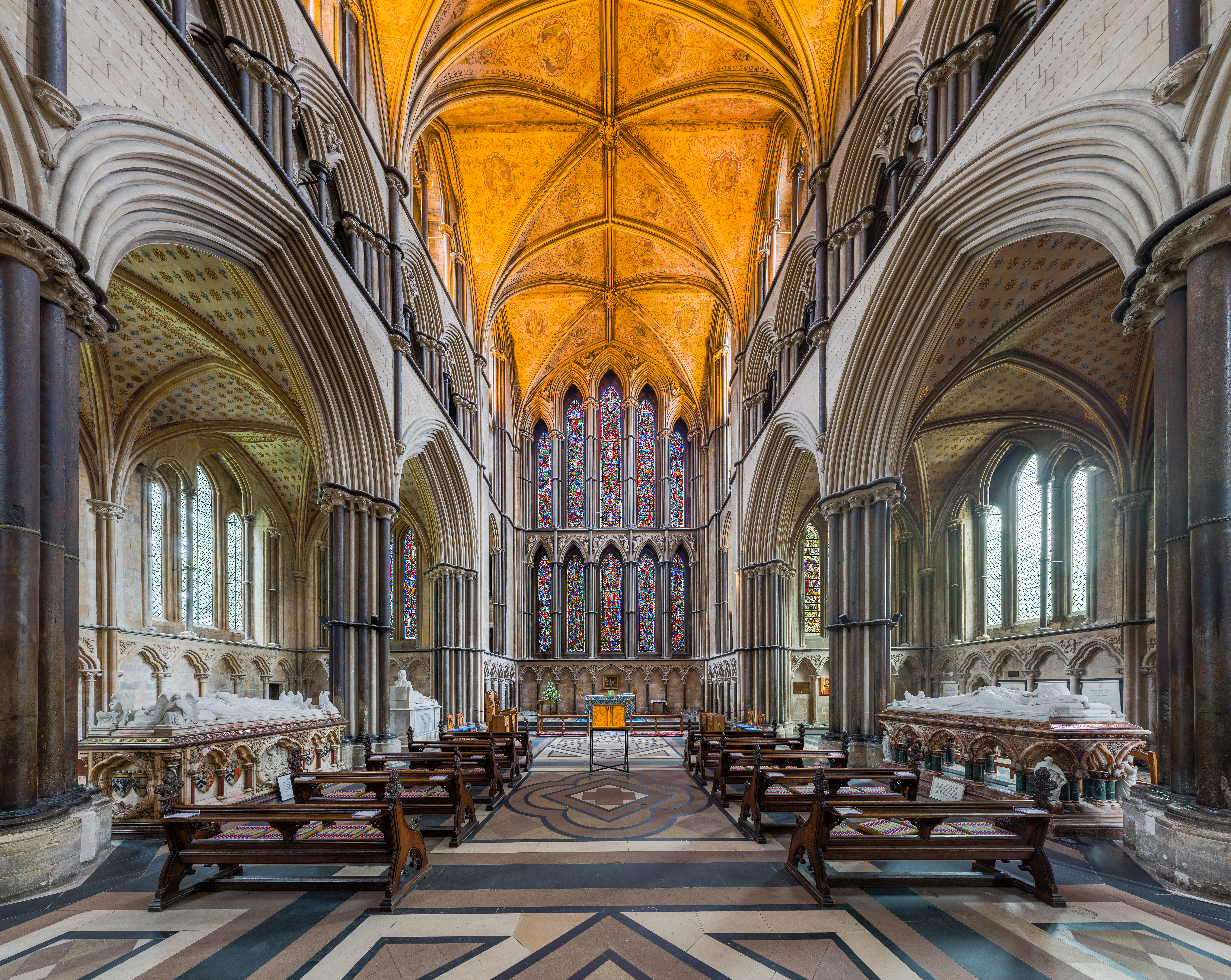 The lady chapel of Worcester Cathedral, Worcestershire, England.